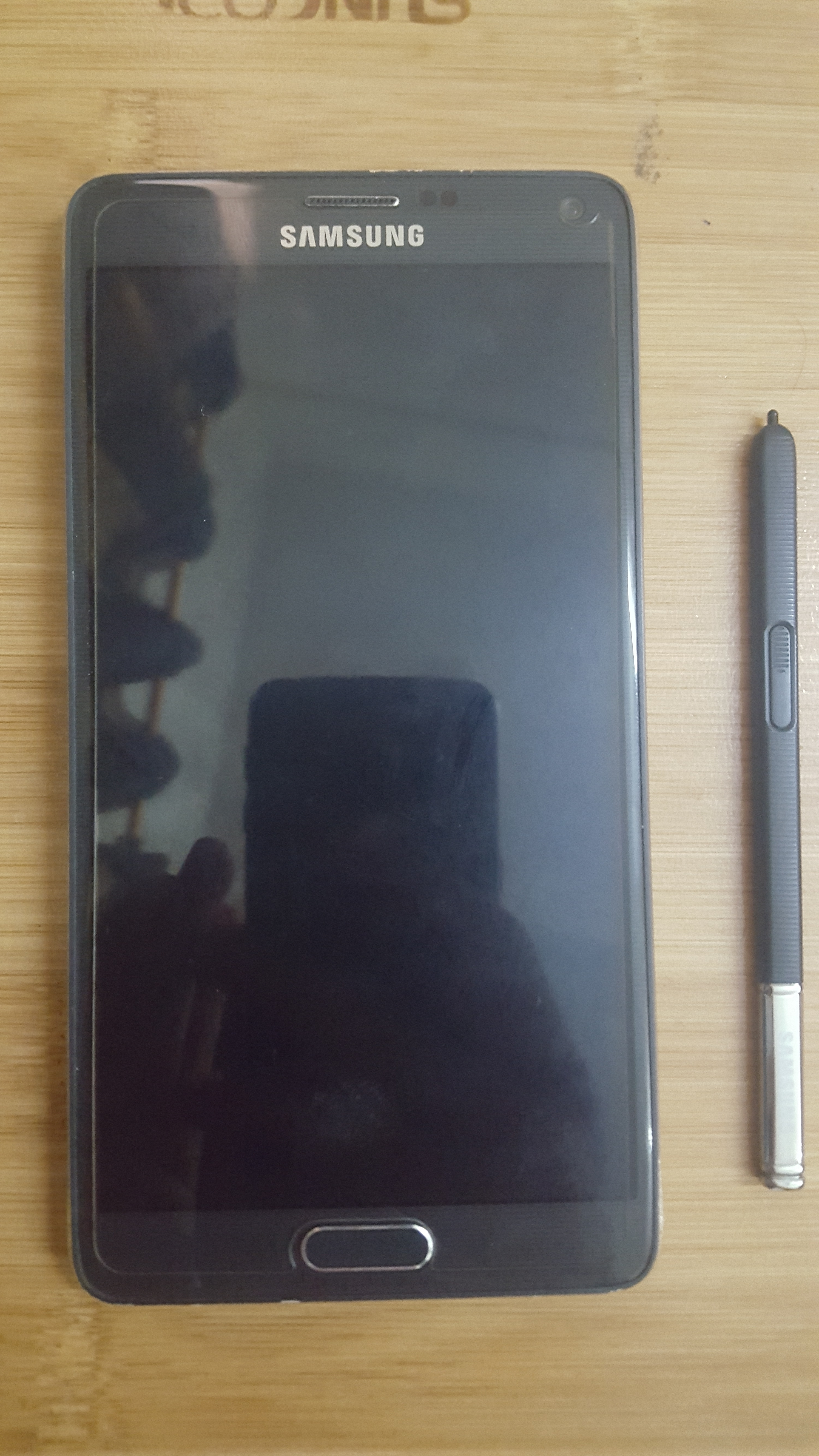 A picture of Samsung Galaxy Note 4 with S Pen.